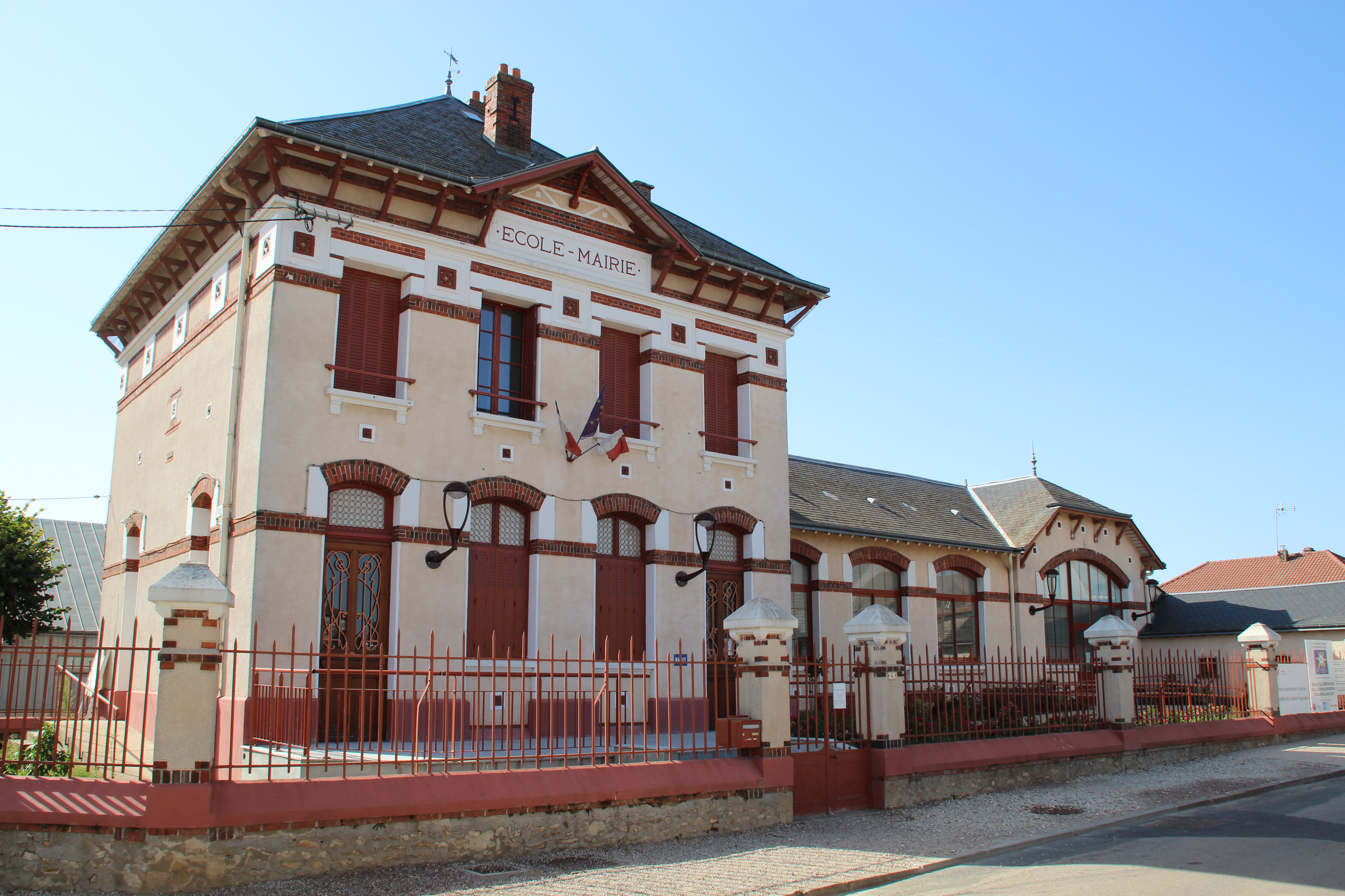 Town hall of Allainville in the Yvelines in France.